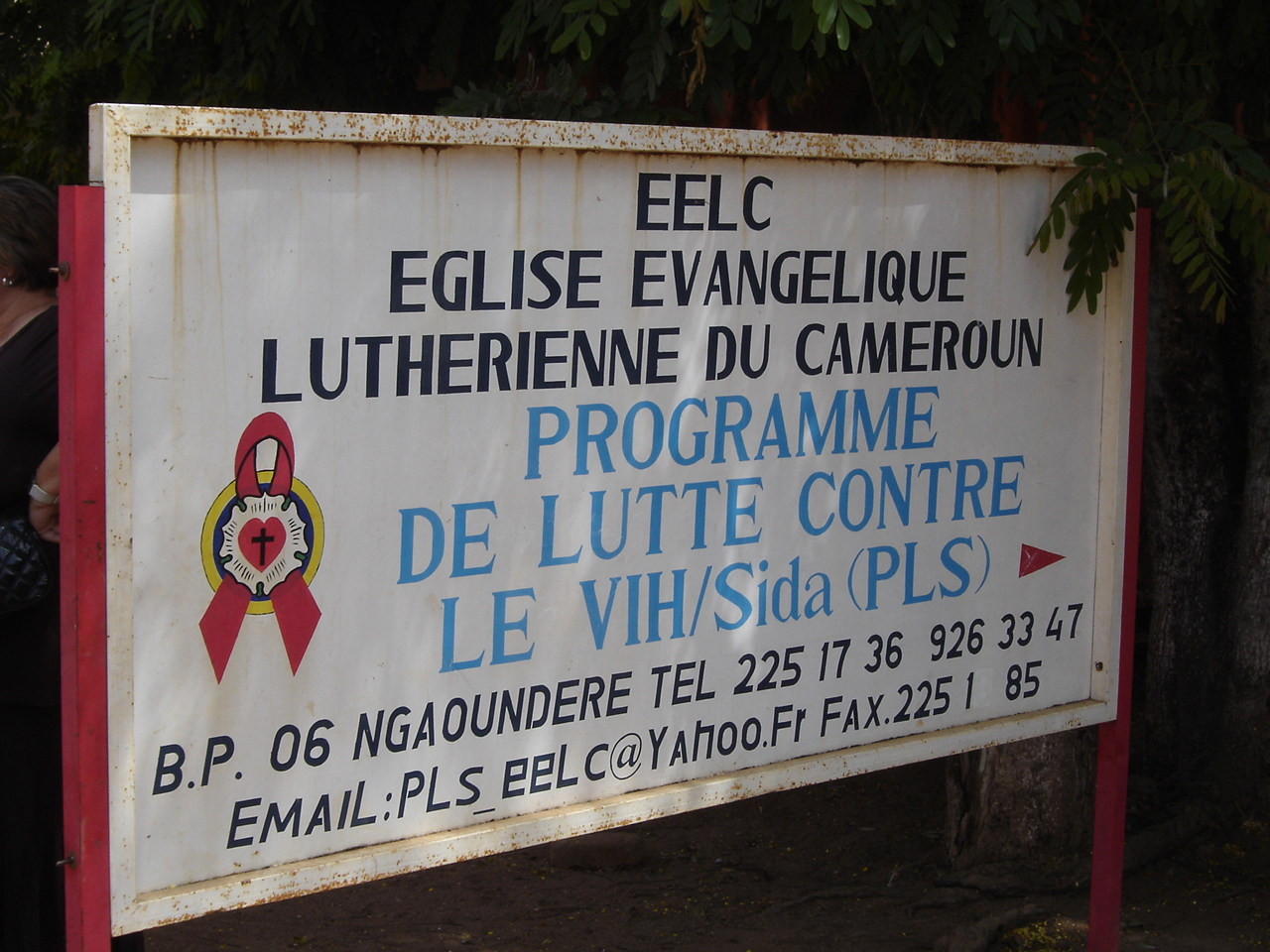 AIDS hospital in N'Gaoundere, Cameroon.